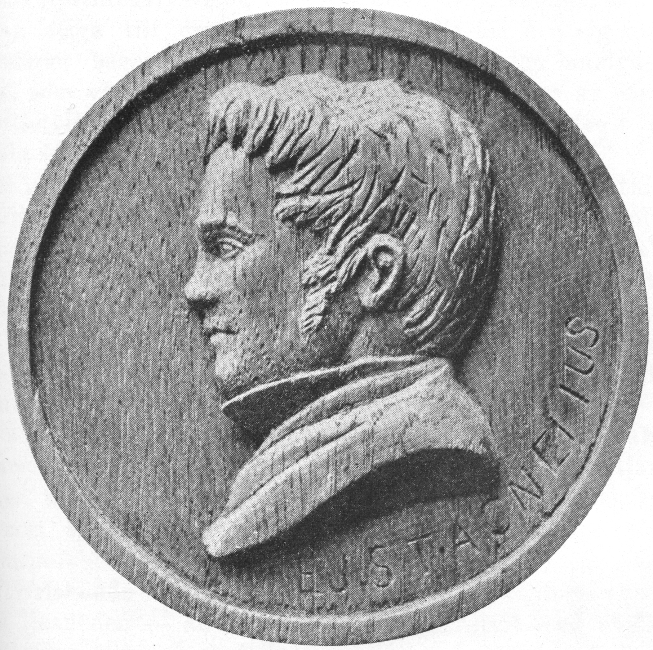 Erik Johan Stagnelius, medallion in wood by L.G. Malmberg.